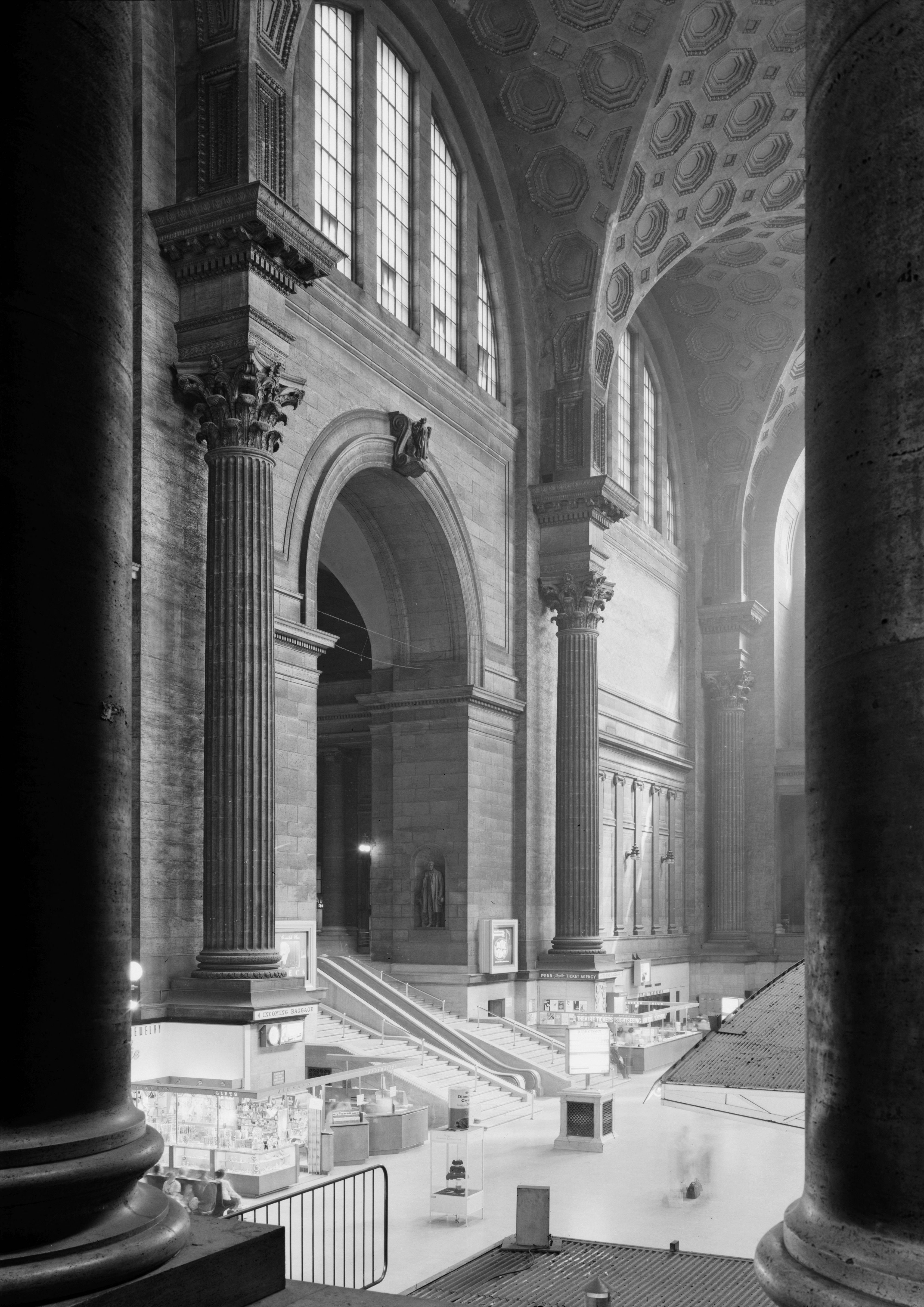 6. Historic American Buildings Survey, Cervin Robinson, Photographer May 10, 1962, WAITING ROOM FROM NORTHWEST. - Pennsylvania Station, 370 Seventh Avenue, West Thirty-first, Thirty-first-Thirty-third Streets, New York, New York County, NY